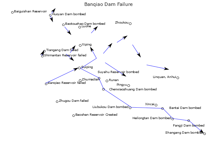 Rough diagram of waterflow during the Banqiao Dam Failure